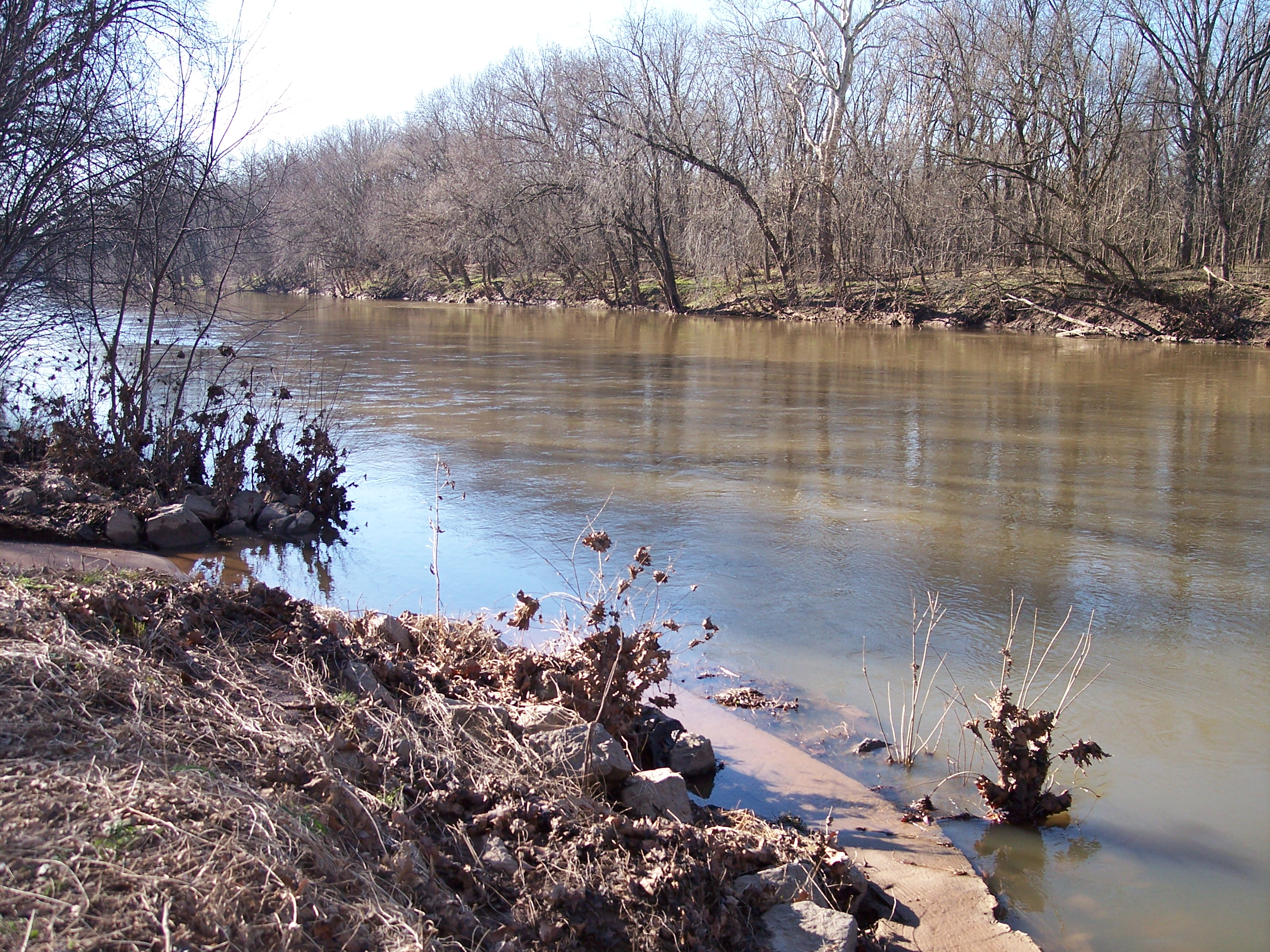 The Monocacy River in Pine Cliff Park, near the city of Frederick in Frederick County, Maryland